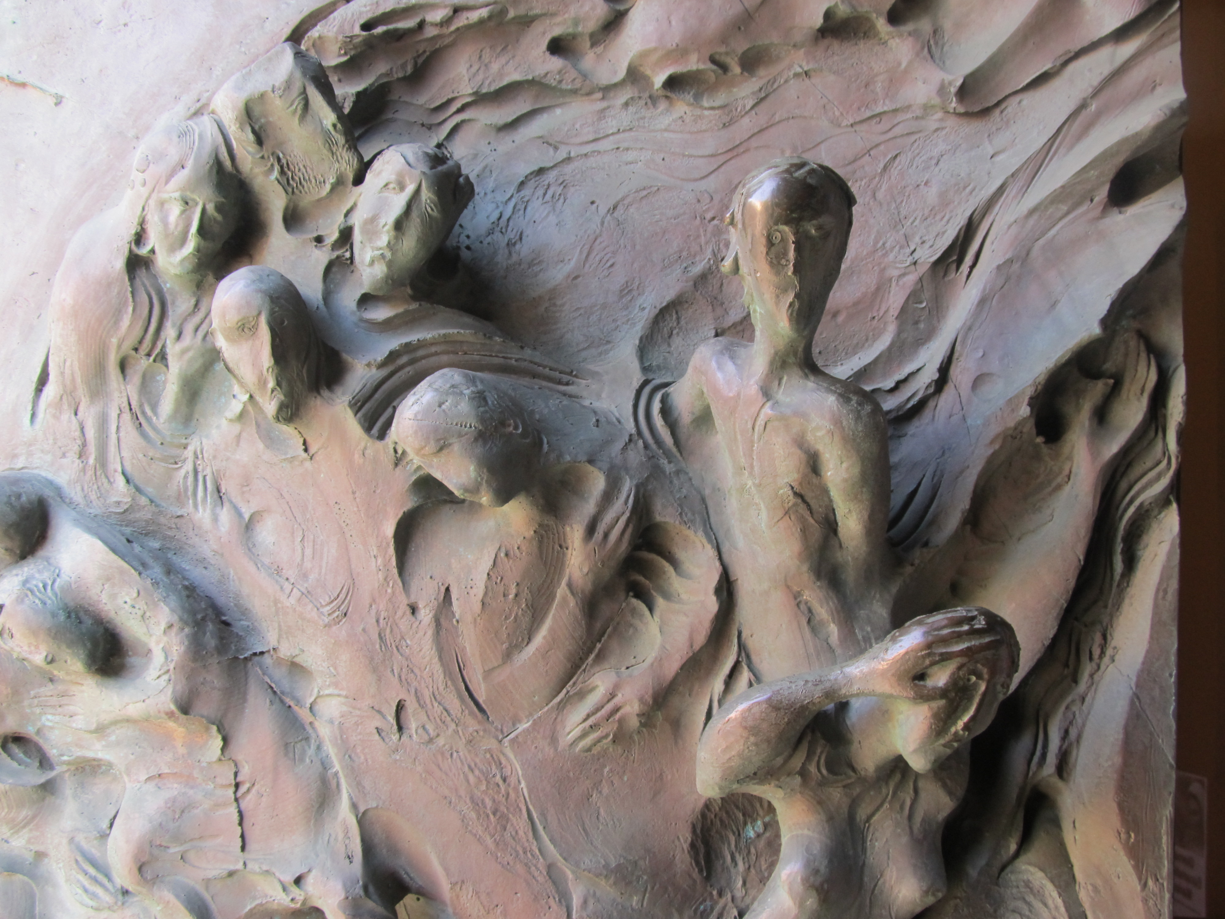 Little Church of Suffragio